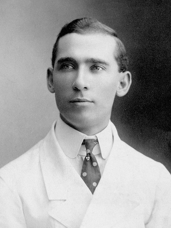 Thomas Sewell Adams, portrait photograph, shoulders up, full face, c25 years of age, 1899. (Photo by JHU Sheridan Libraries)